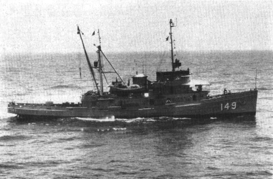 The U.S. Navy fleet ocean tug USS Atakapa (ATF-149) underway while serving in the Atlantic.